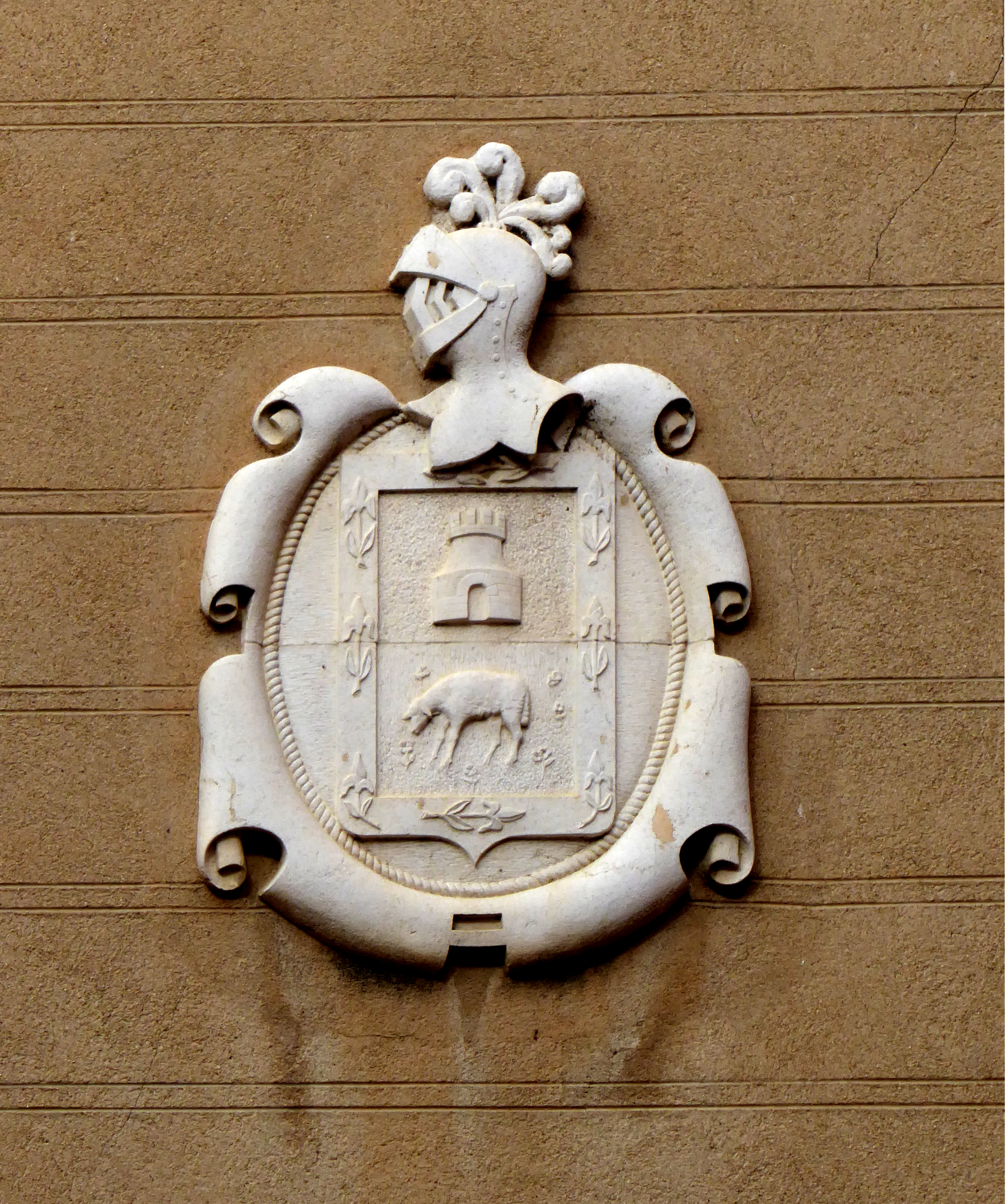 Coat of arms in the facade of Casa Pastell in the plaça dels Homes of Castelló d'Empúries